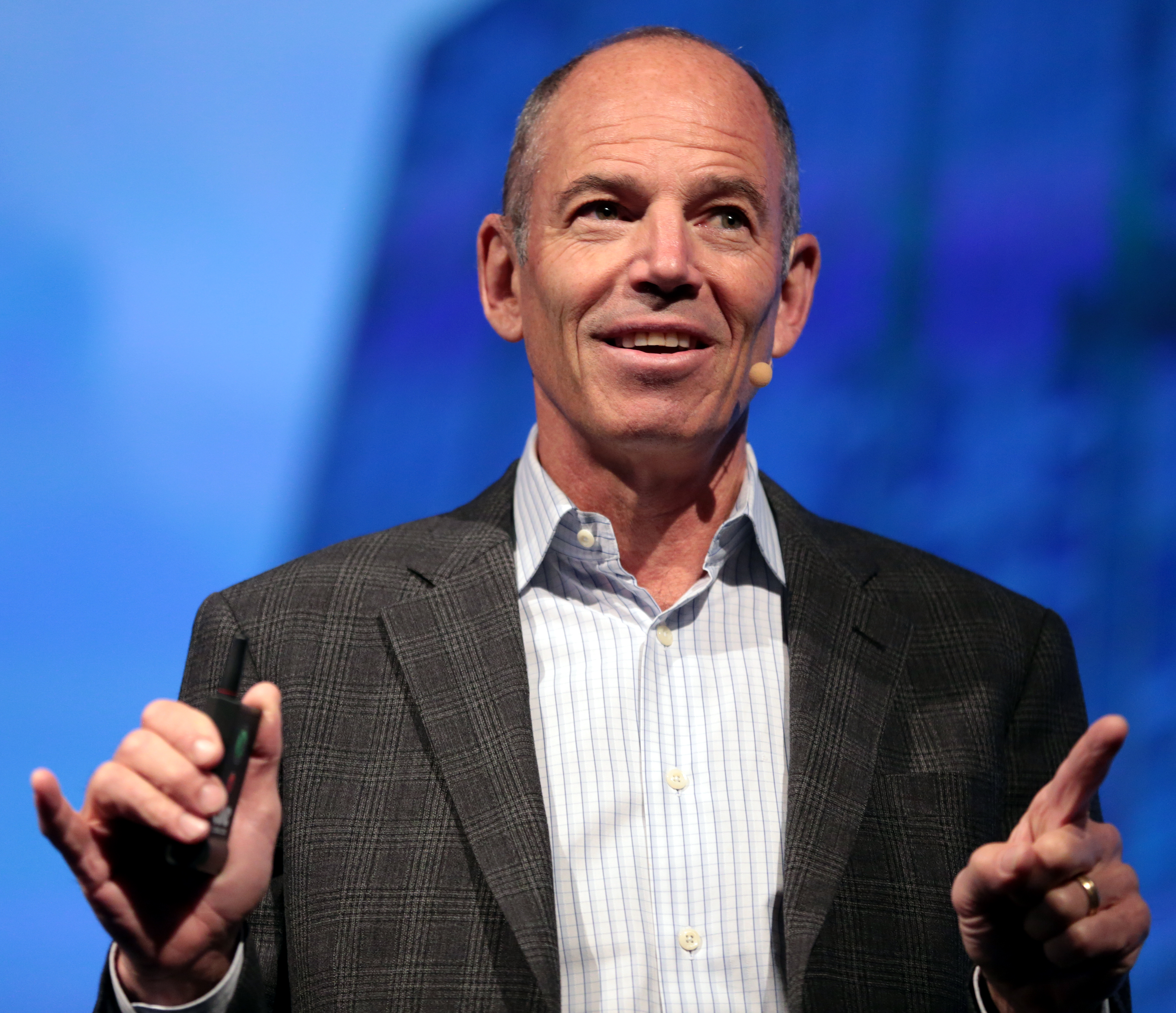 Netflix co-founder Marc Randolph speaking at an event in Phoenix, Arizona